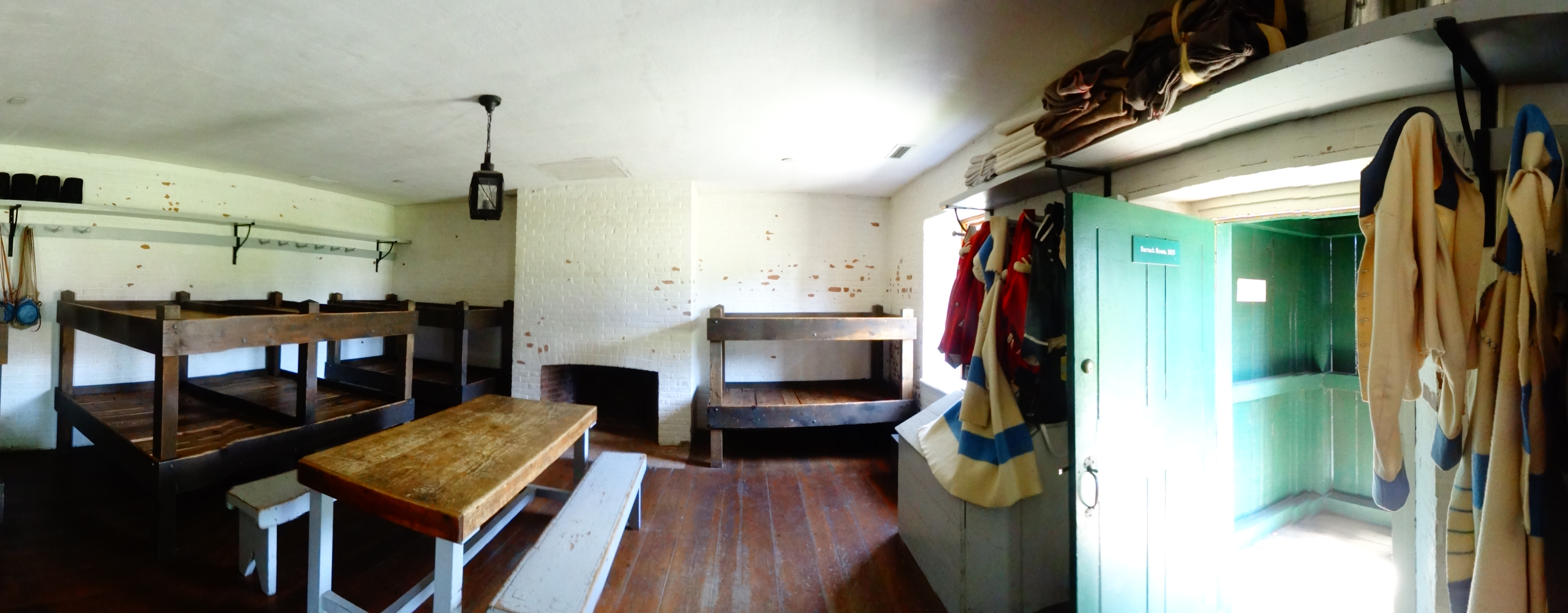 The 16 bunks in this barracks housed 100 people, enlisted men and their wives and children, 2015 09 10 (4).JPG